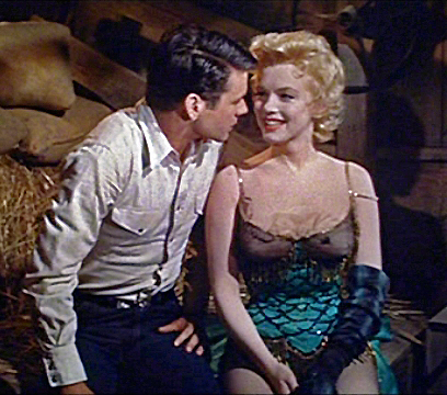 Screenshot of Don Murray and Marilyn Monroe from the trailer for the film Bus Stop